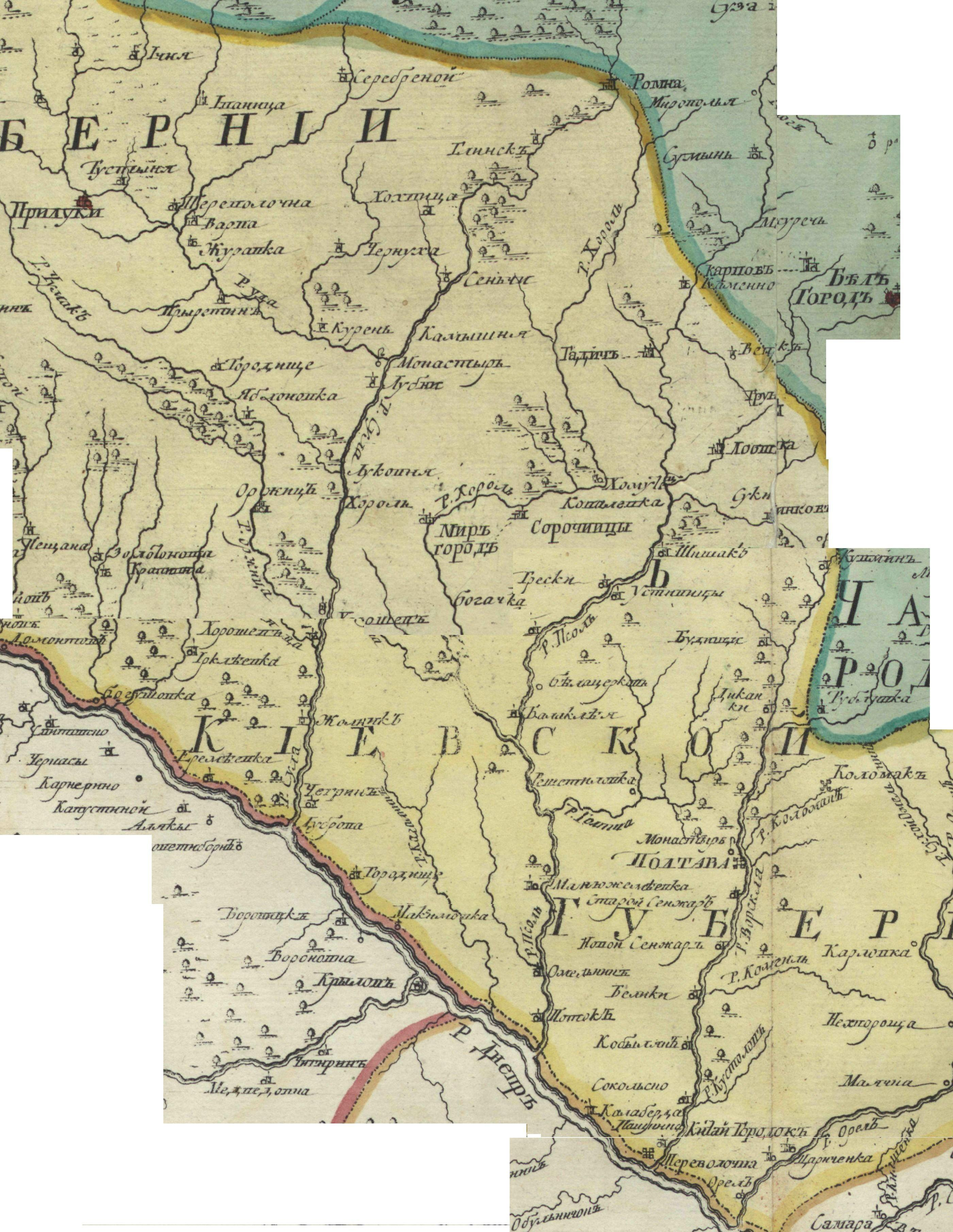 Poltava region on the map in 1745